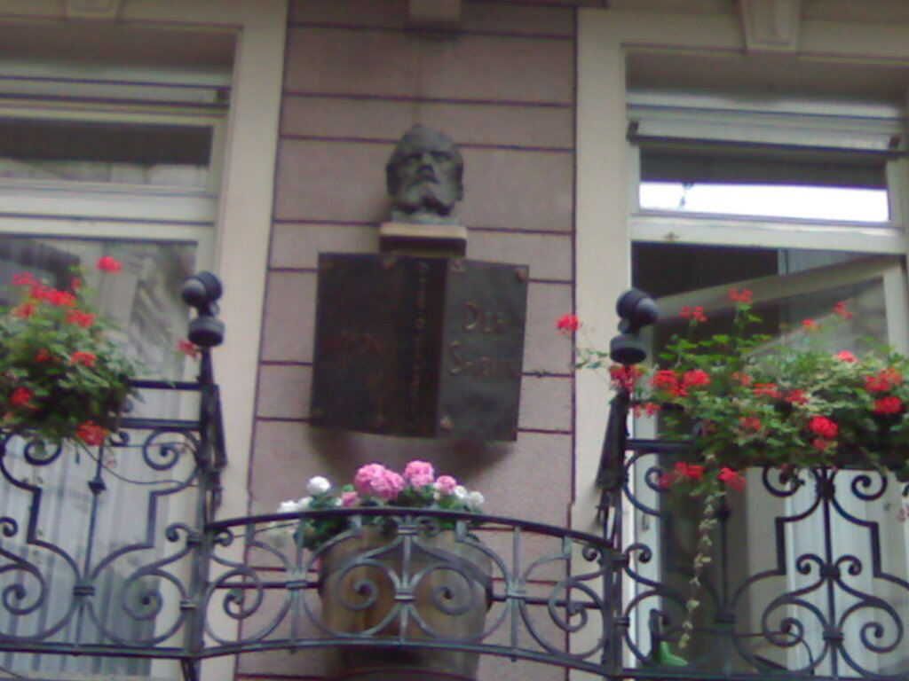 place in Baden-Baden and monument where Dostoevski wrote his work "The Gambler"